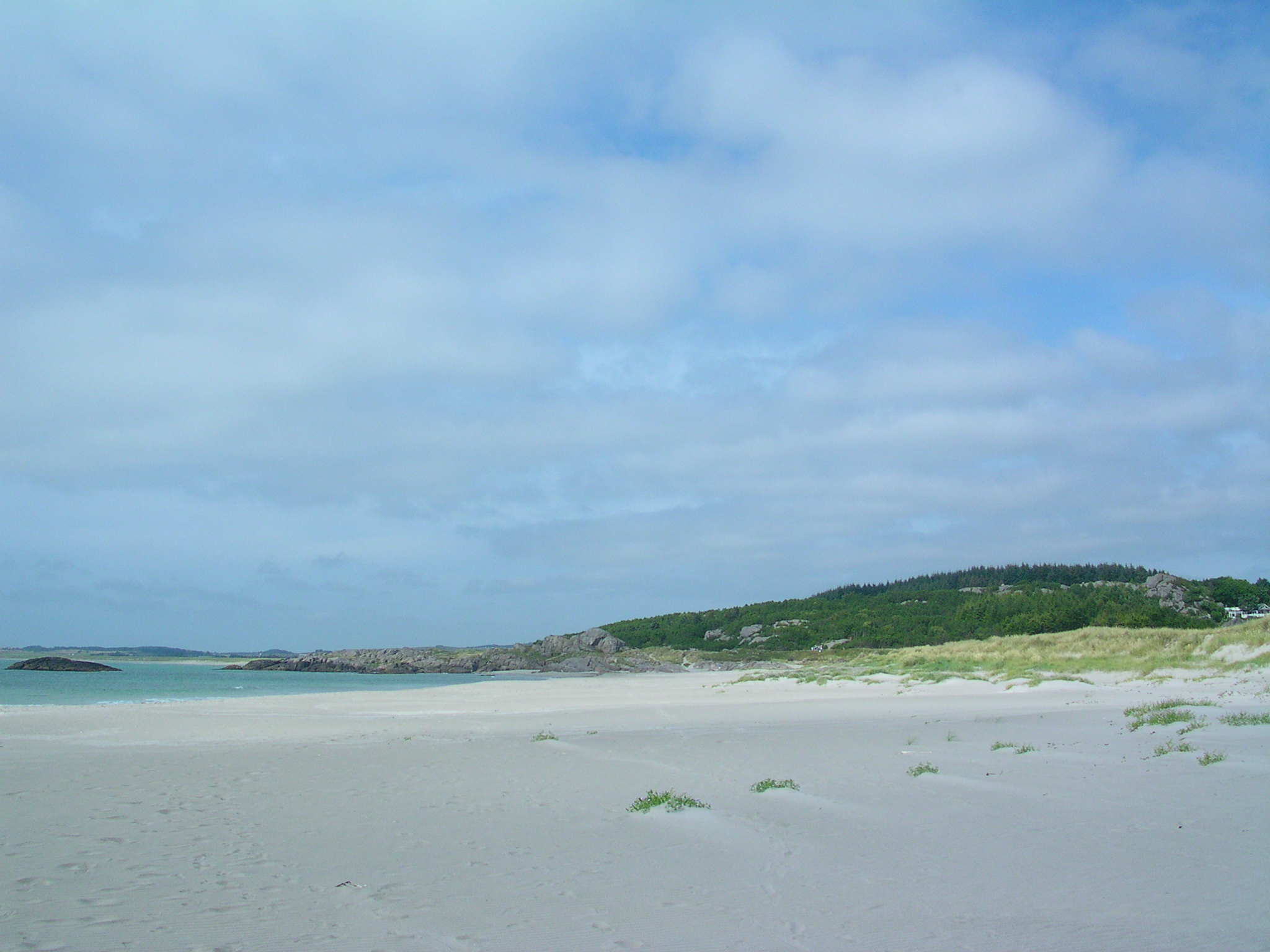 Beach in the district of Jæren, near Ogna in Norway